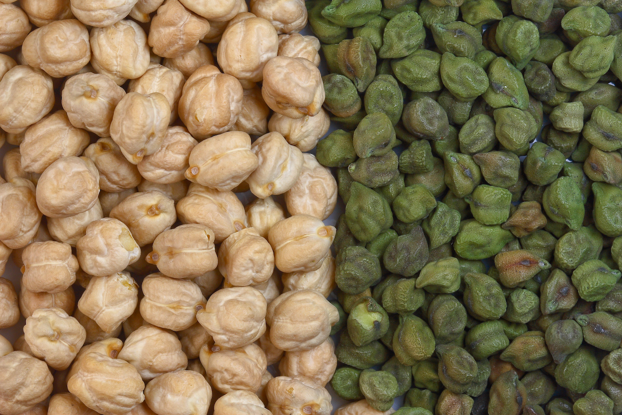 Close-up picture of white and green chick peas (Cicer arietinum)